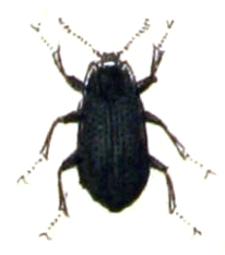 Elmis aenea, from Calwer's Käferbuch, Table 16, Picture 29. Taxonomy was updated to 2008, using mostly the sites Fauna Europaea and BioLib. Please contact Sarefo if the determination is wrong!